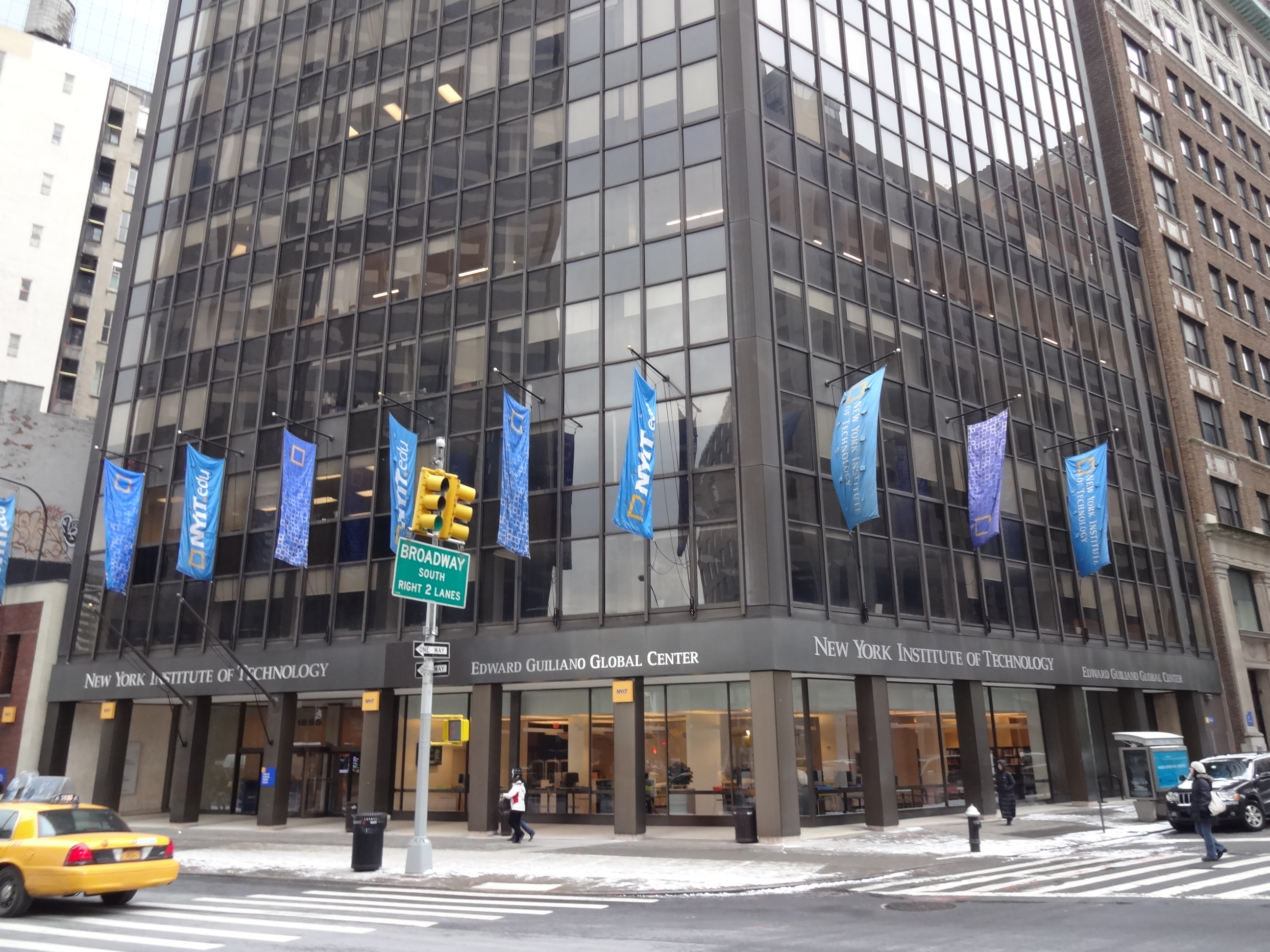 New York Institute of Technology